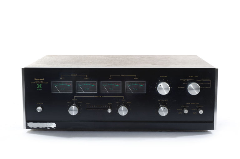 The Sansui QS-1 is a high performance four-channel synthesizer. Its function switch allows concert hall, solo, surround, quarter turn, half turn, normal and two-channel sound field effects.